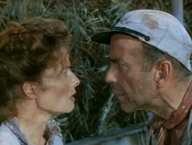 Katharine Hepburn and Humphrey Bogart in The African Queen (1951) - trailer (cropped screenshot).